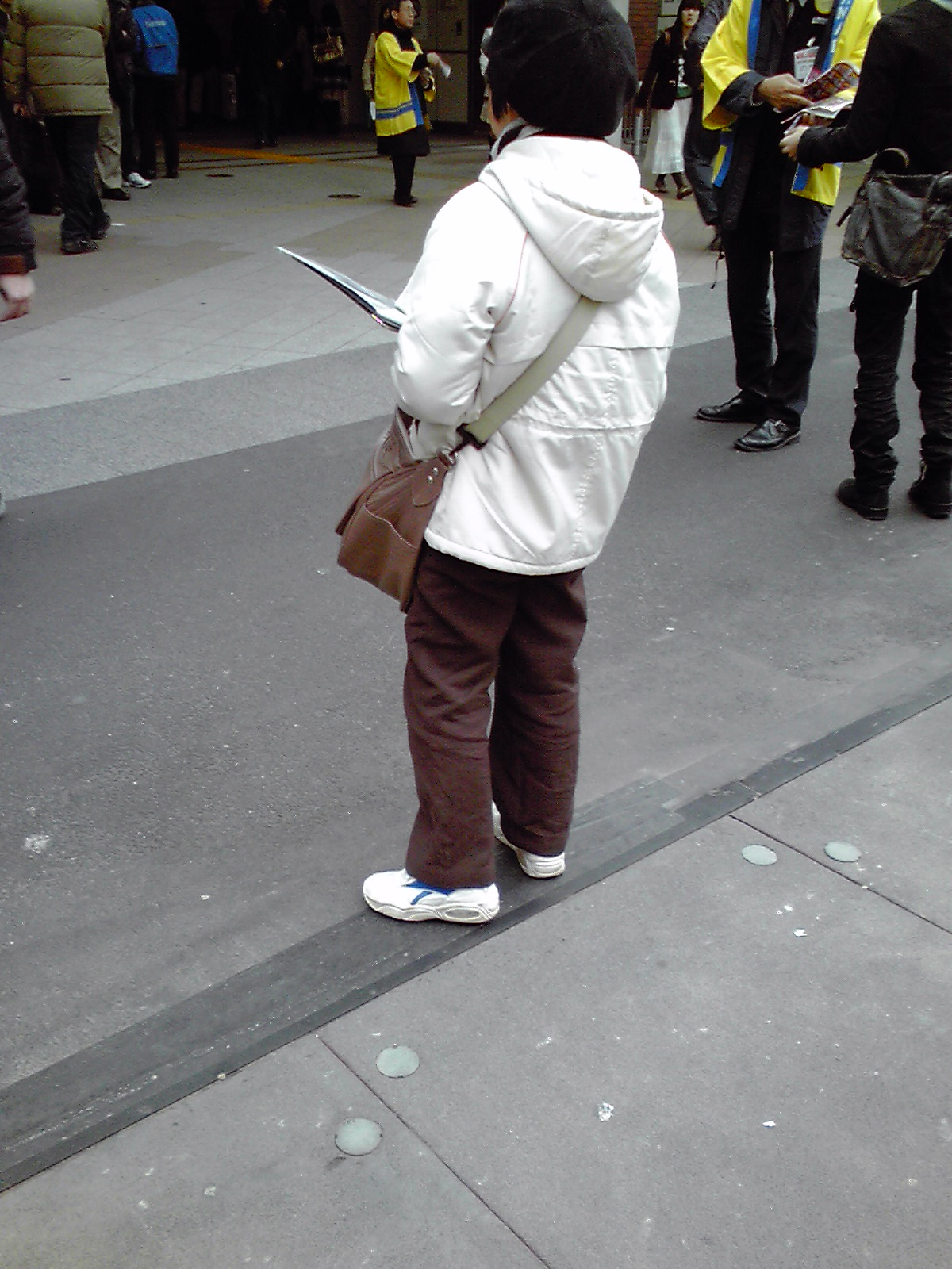 A member of Nihon Volunteer Kai in a fund-raising activity at Akihabara station.